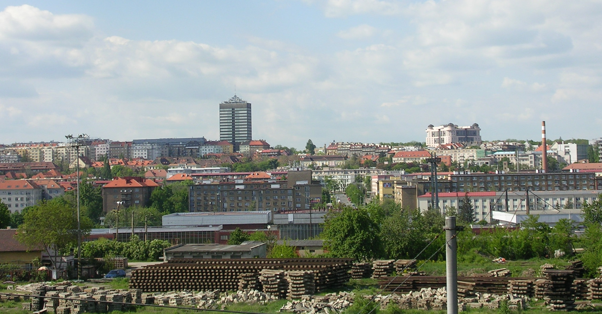 Vršovice a Vinohrady, Prague, the Czech Republic.